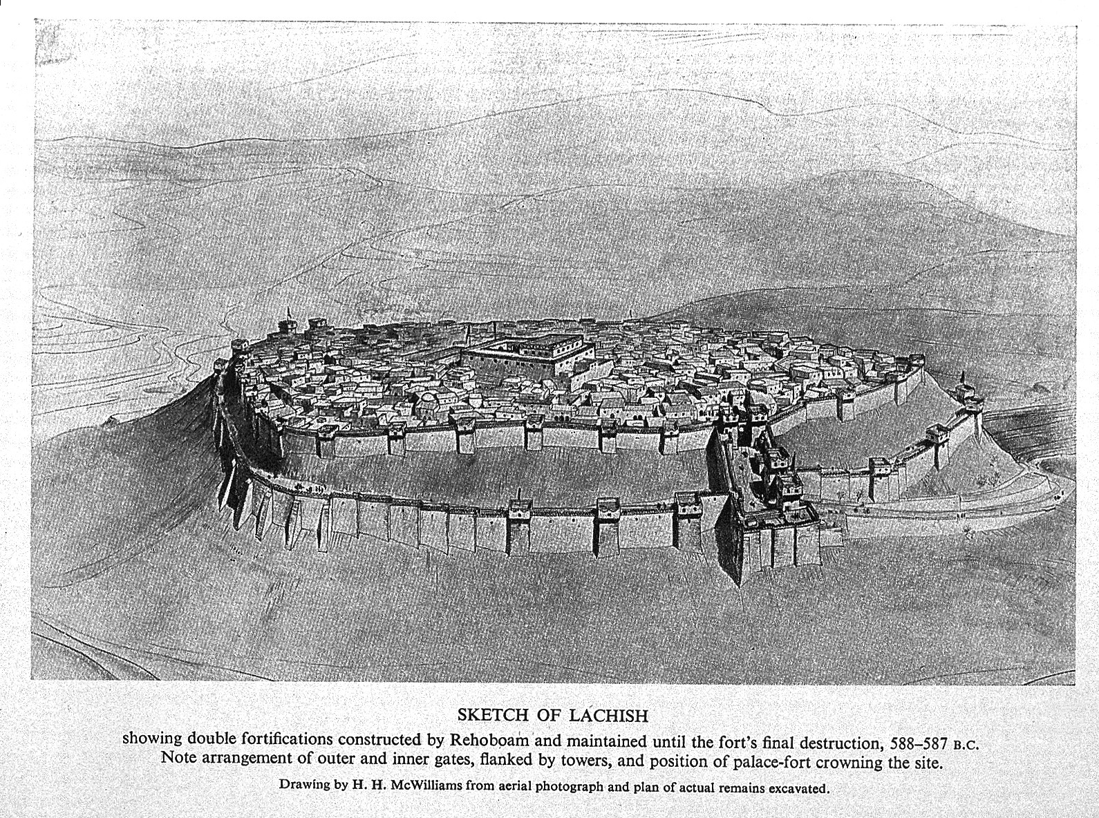 General view of Tell ed Duweir looking east General Collections Keywords: jews-history; paleography-hebrew; Palestine; Archaeology; Harry Torczyner